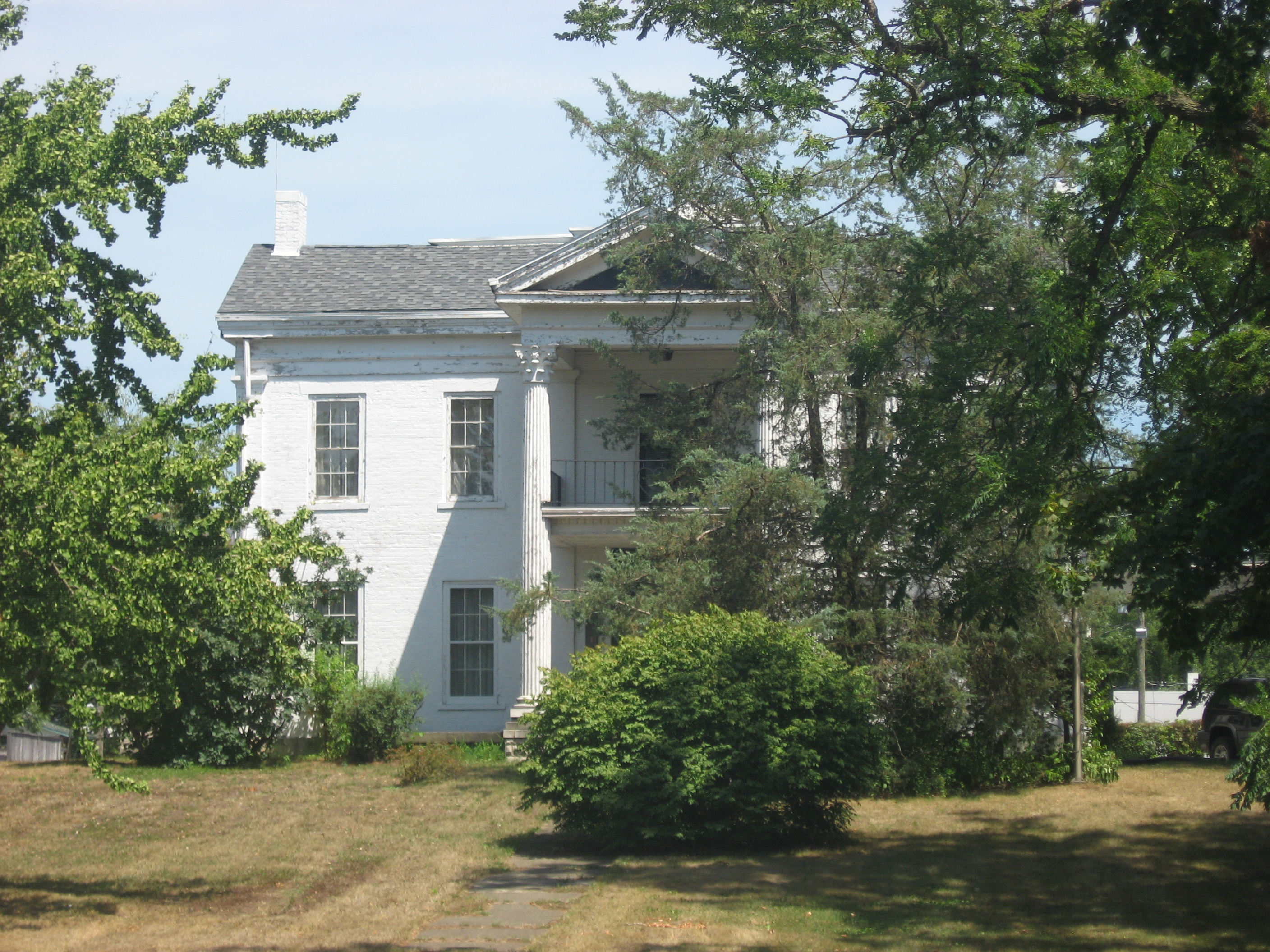 Front of the Aaron Swayzee House, located at 224 N. Washington Street in Marion, Indiana, United States. Built in 1855, it is listed on the National Register of Historic Places.